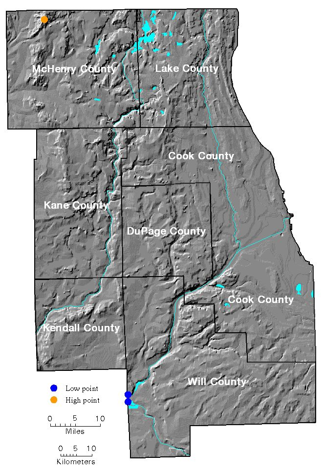 The geography of the Chicago metropolitan area. The highest point is in McHenry County (1189 feet above mean sea level) near Harvard. The lowest points are located in Will County (510 feet above mean sea level) near the Des Plaines and Kankakee Rivers. The images are merged from the Illinois State Geological Survey's website.